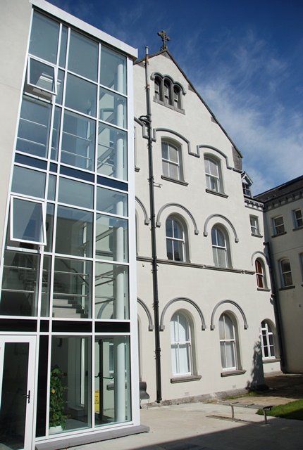 LIT School of Art & Design - showing how the new building elements sit comfortably alongside the 19th century convent.